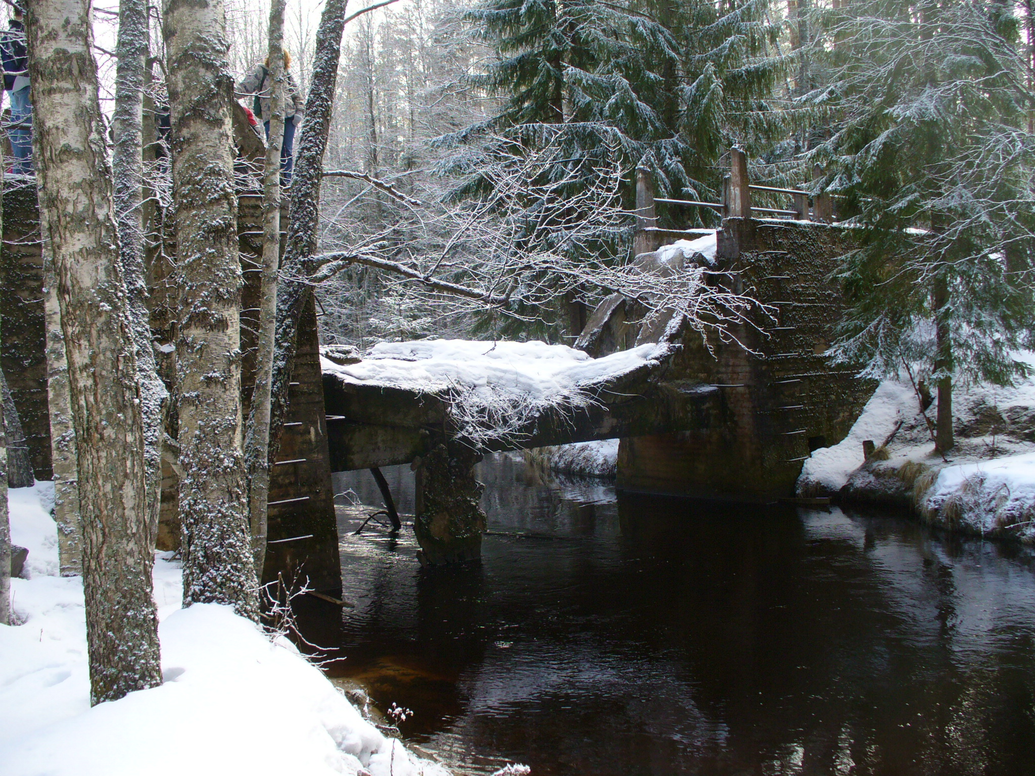 Mannerheim line dam on Perovka river, Leningrad oblast, Russia